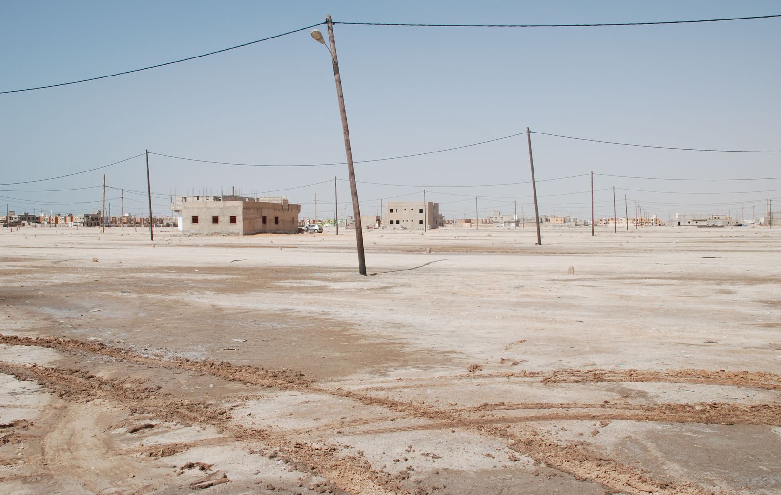 Nouakchott, Mauritania, west of Sebka towards fishing harbour